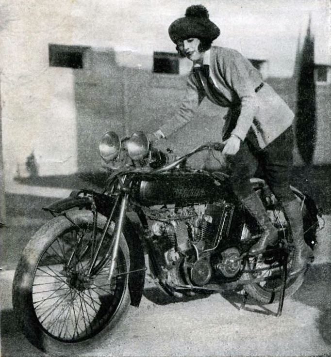 Mabel Normand on her motorcycle, page 63 of the January 1921 Film Fun.